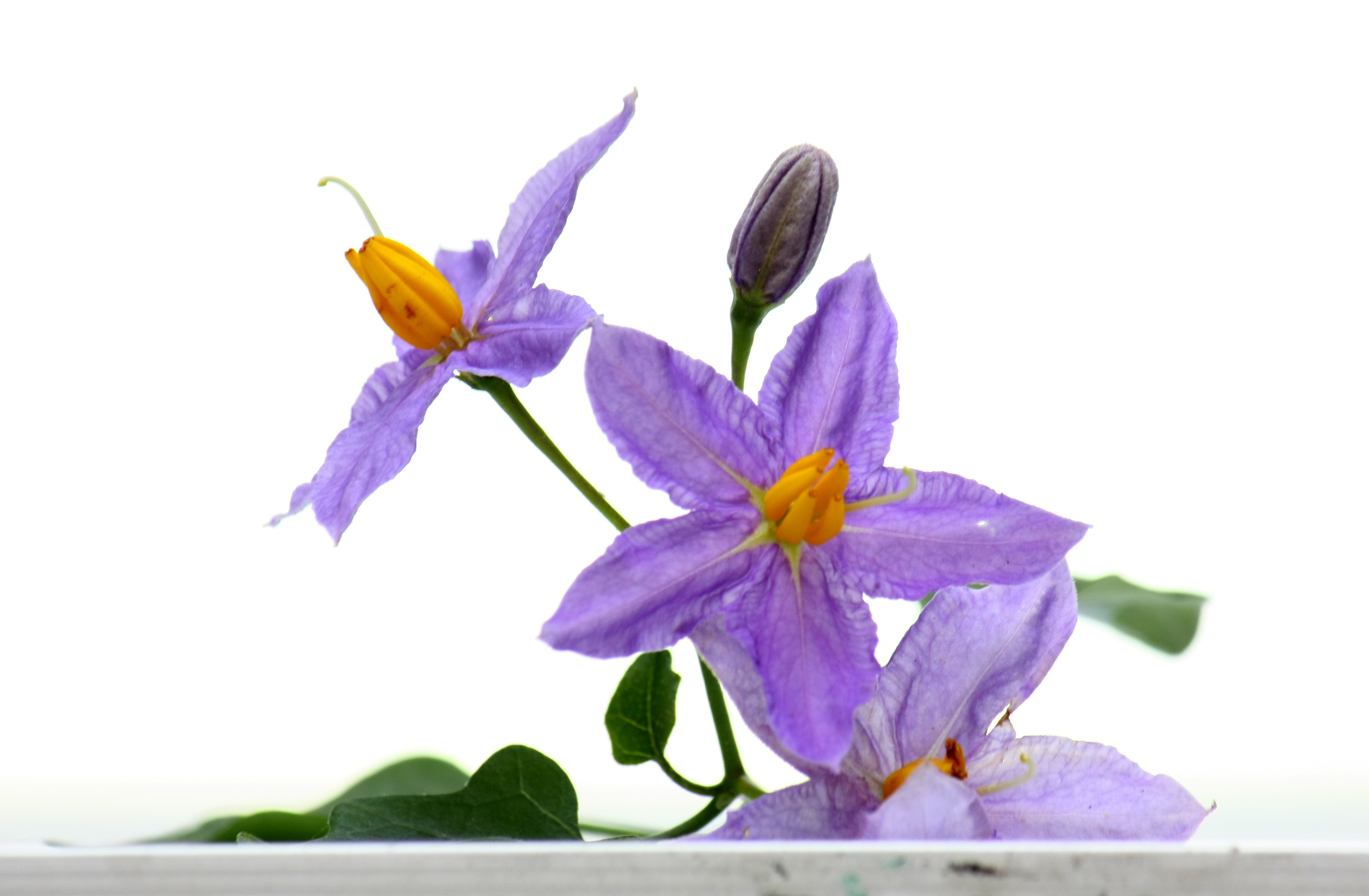 Solanum trilobatum flowers and bud